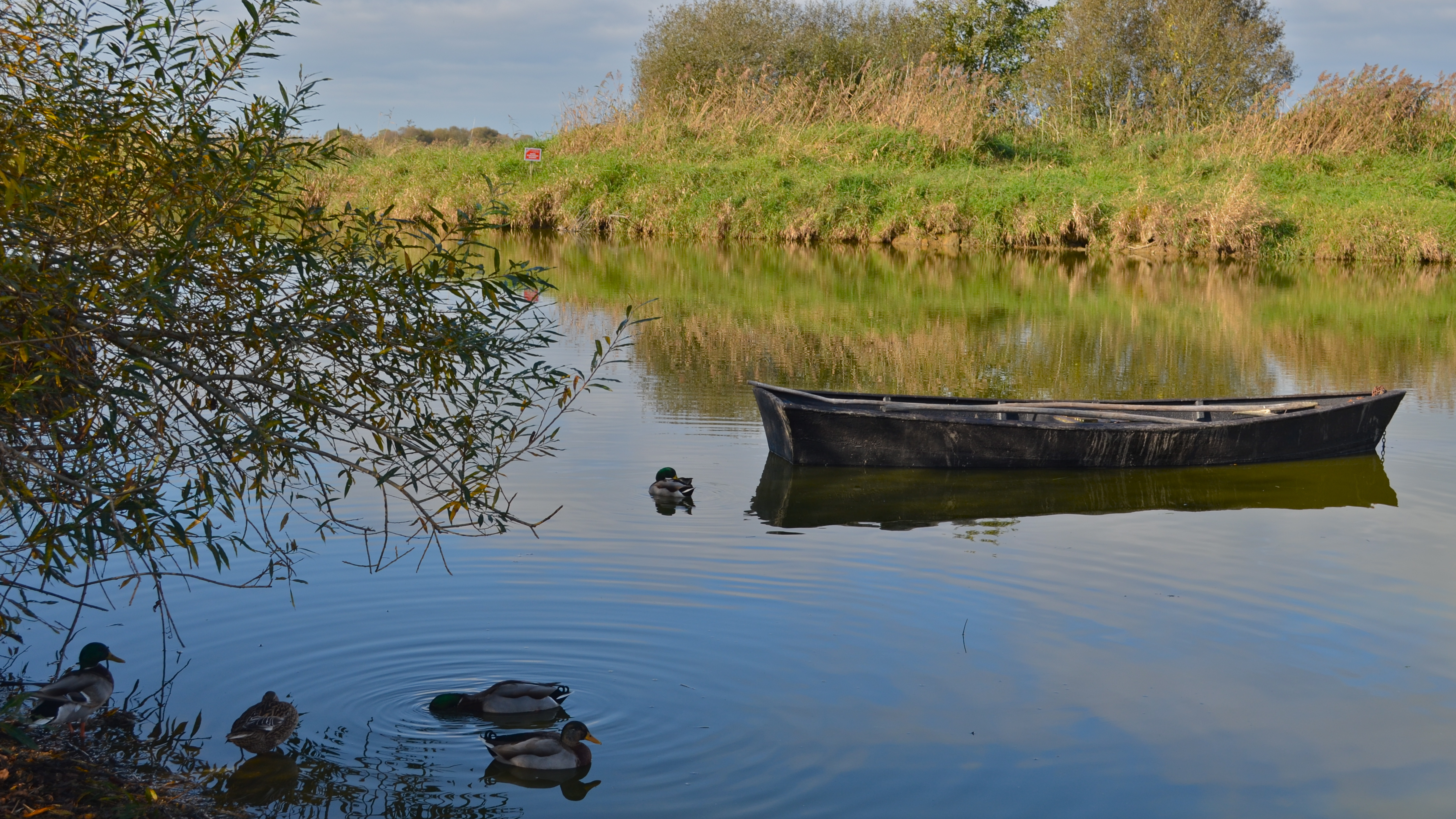 Grand-Lieu lake, view from Passay - La Chevrolière (Loire-Atlantique) - France